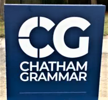 Chatham Grammar School for Girls sign board, with badge adopted in 2019.